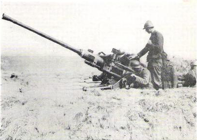 Belgian soldiers manning an anti-aircraft gun during the Battle of Belgium (1940)